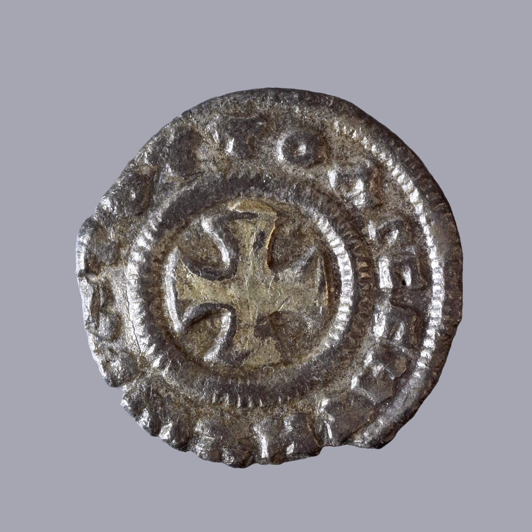 The Aksumite Kingdom began to issue coins about AD 270. Silver and bronze coins were issued for local, everyday use, and generally followed the design of Roman coins with a bust portrait of the ruler in profile on one side. Aksumite coins were the first in the ancient world to carry the cross as a symbol of the ruler's devotion to the Christian religion.